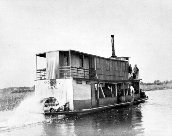 Steamboat "Naoma No. 3" of Tampa on the Kissimmee River.